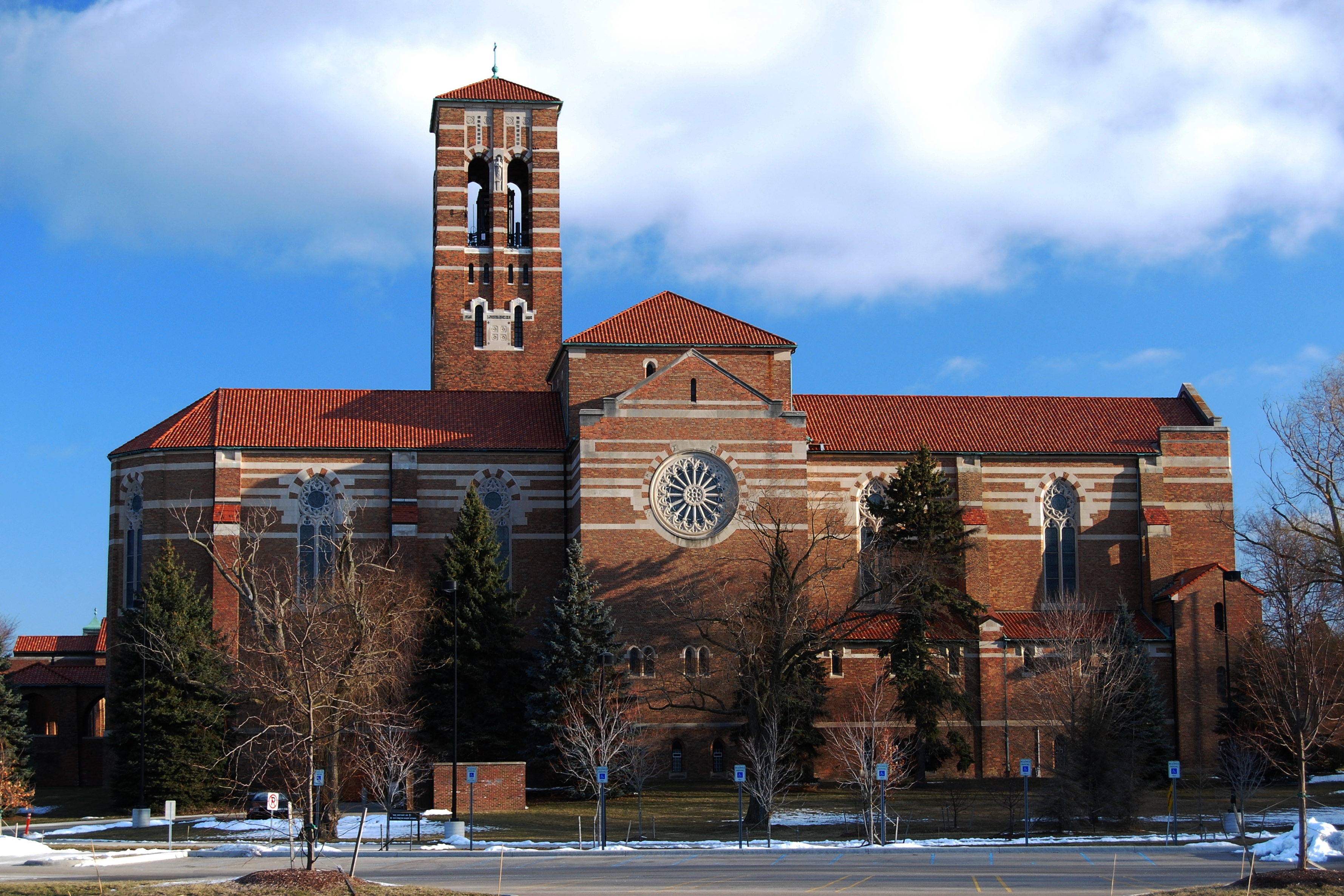 Southfield, Word of Faith, Chapel, south side